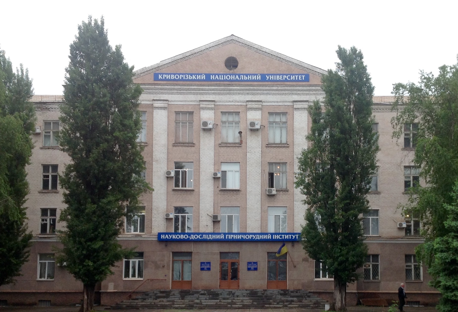 КНУ ДНДГI